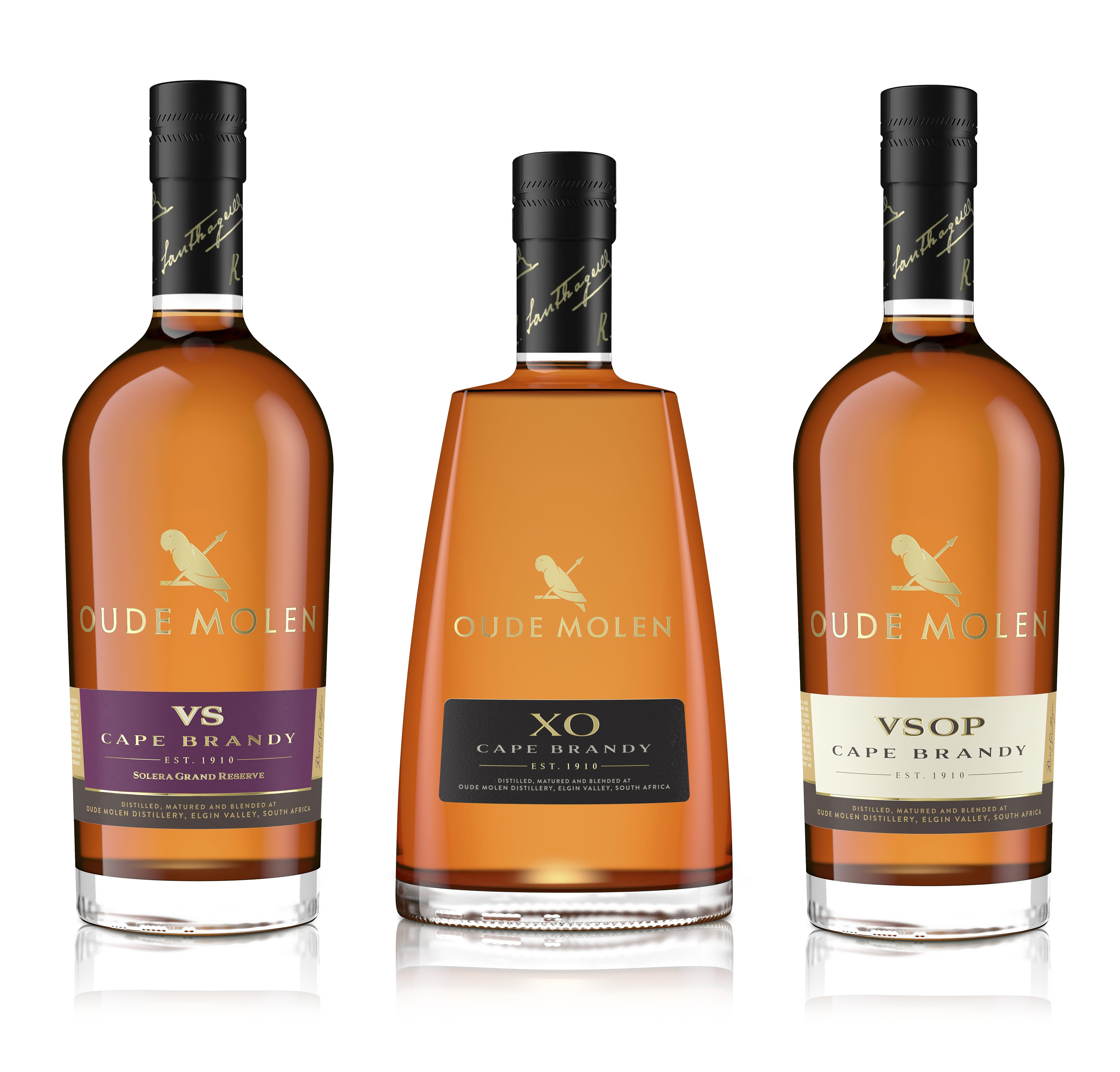 The Oude Molen VS, VSOP and XO Cape Brandies